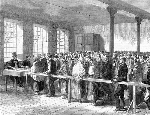 Illustration from newspaper of people in line for food and coal tickets at a district Provident Society office during the cotton famine.